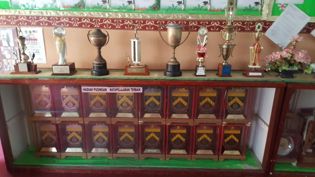 almari piala